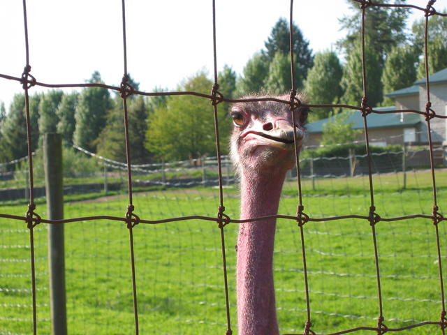 Ostrich, Vancouver Area Zoo, April 2004